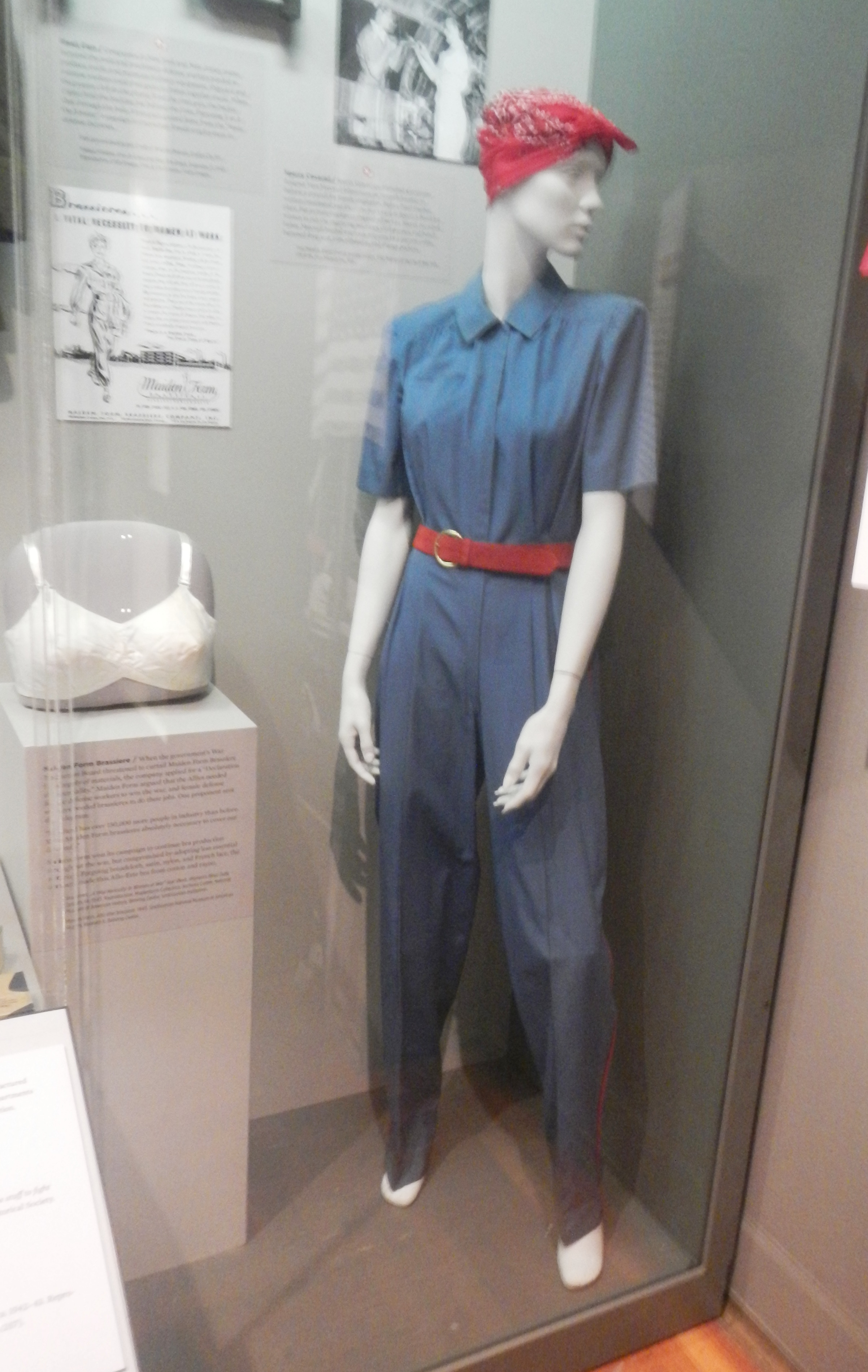 Coverall designed by Vera Maxwell for Sperry war workers.